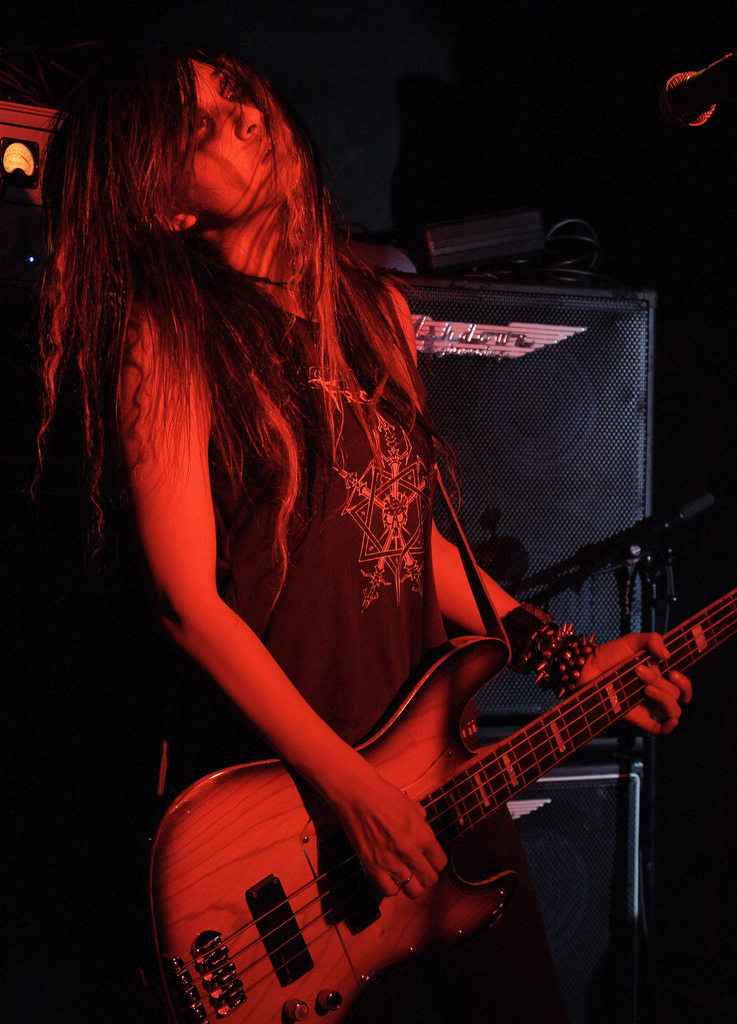 Vivian Slaughter, vocalist/bassist of the band Gallhammer, during a concert in 2007 in London.